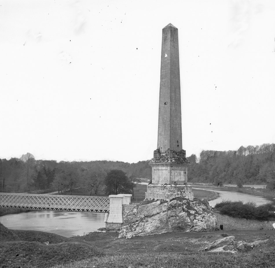 Today we change from the misery of a downtrodden people to a memorial to someone long dead. Drogheda is an historic and fascinating town and I am looking forward to finding out more about this obelisk! Photographers: Frederick Holland Mares, James Simonton Contributor: John Fortune Lawrence Collection: [#//catalogue.nli.ie/Collection/vtls000034077” The Stereo Pairs Photograph Collection] Date: between ca. 1860-1883 NLI Ref: STP_1936 You can also view this image, and many thousands of others, on the NLI’s catalogue at